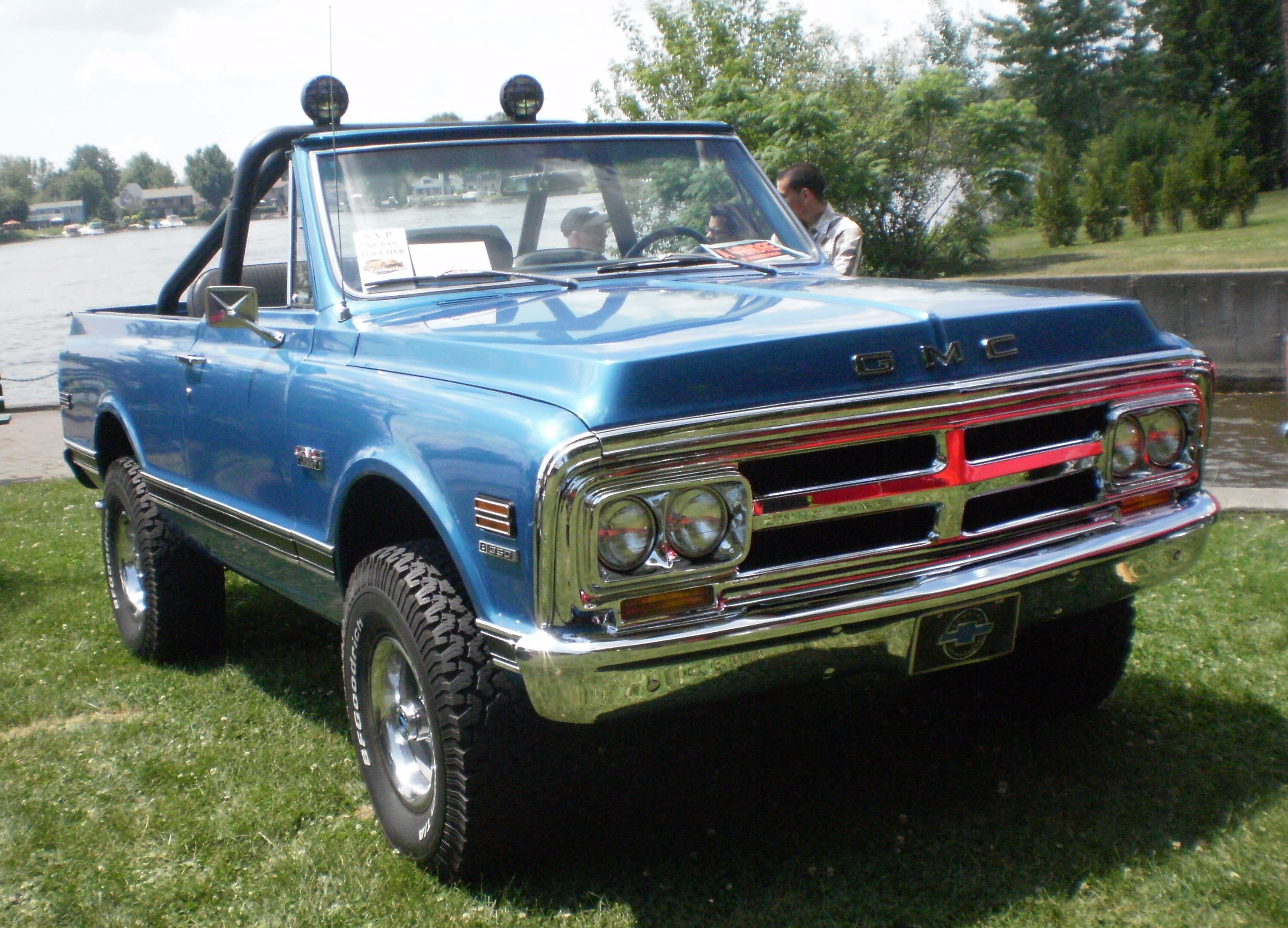 1970 GMC Jimmy photographed in Ste. Anne De Bellevue, Quebec, Canada at Crusin' At The Boardwalk 2011.